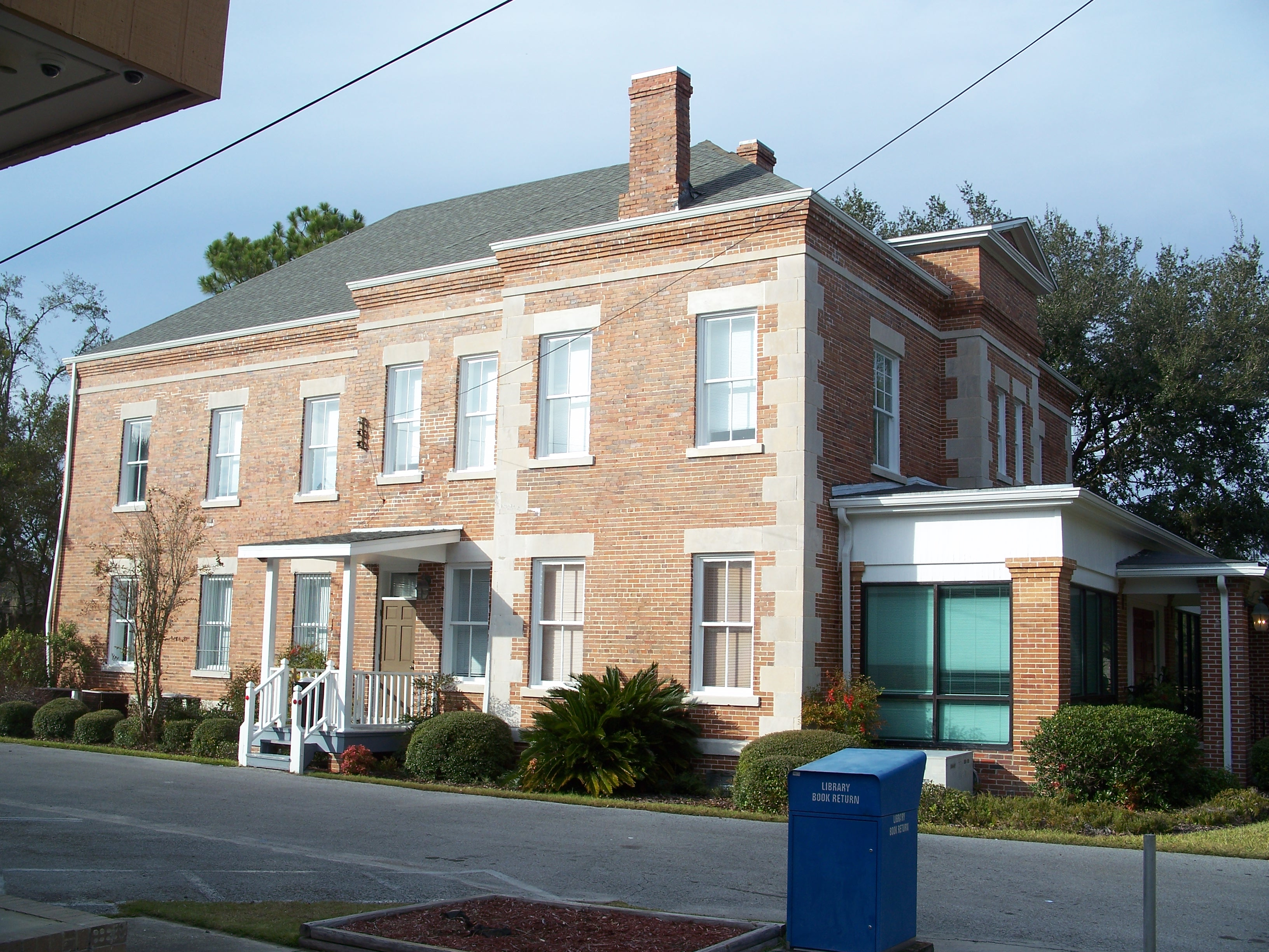 Perry, Florida: Old Taylor County Jail.